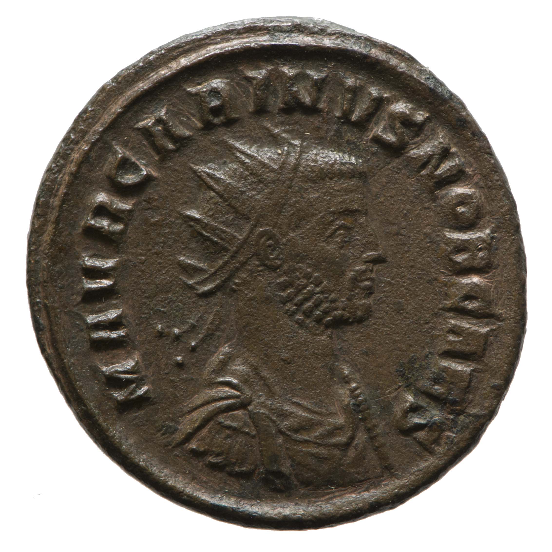 Obverse (front) of a Radiate of w: Carinus, showing head right, radiate, cuirassed, draped